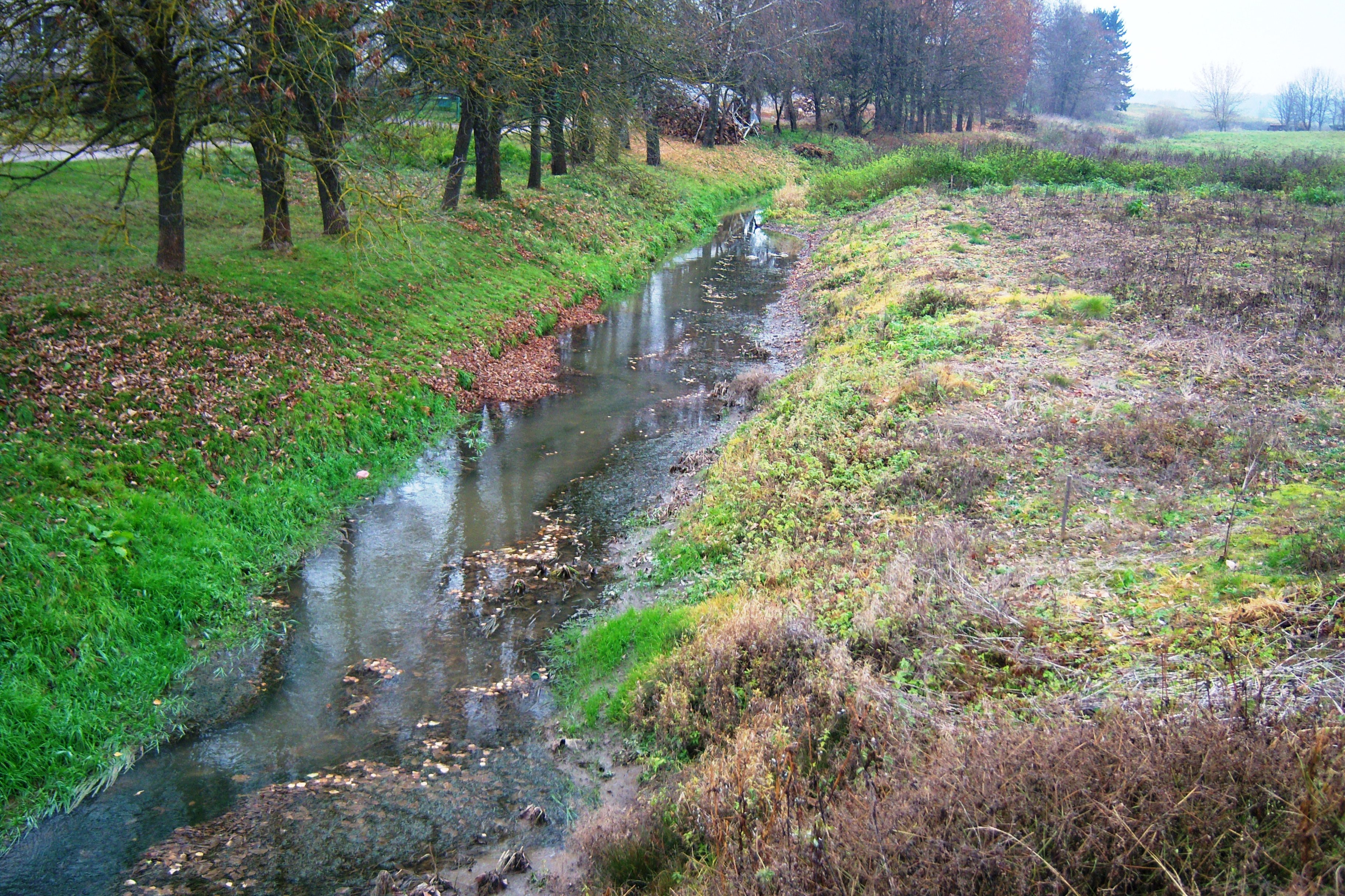 Šlapakšna River in Ilgakiemis, Kaunas district. Lithuania